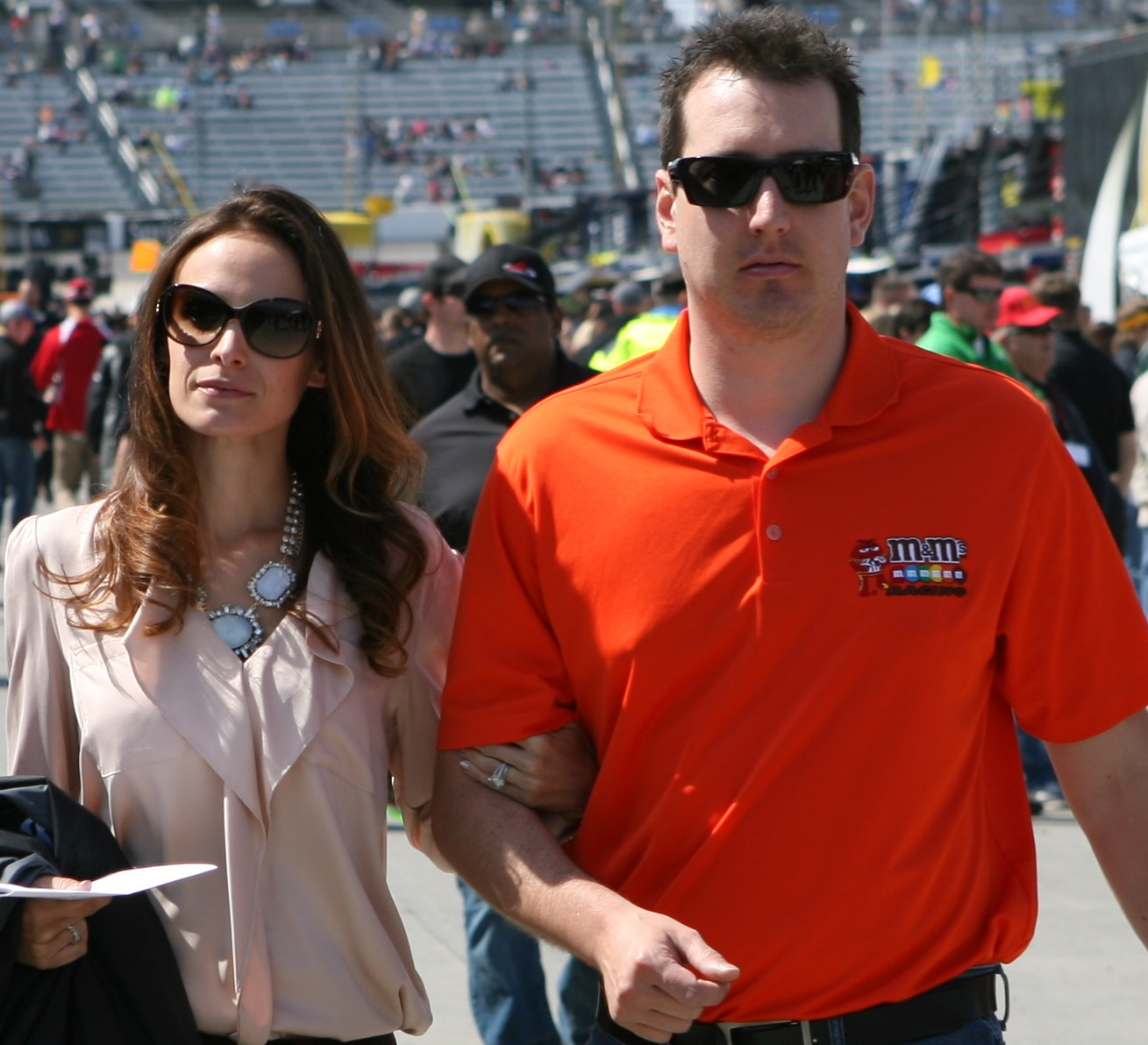 Driver Kyle Busch and his wife Samantha in April 7, 2013